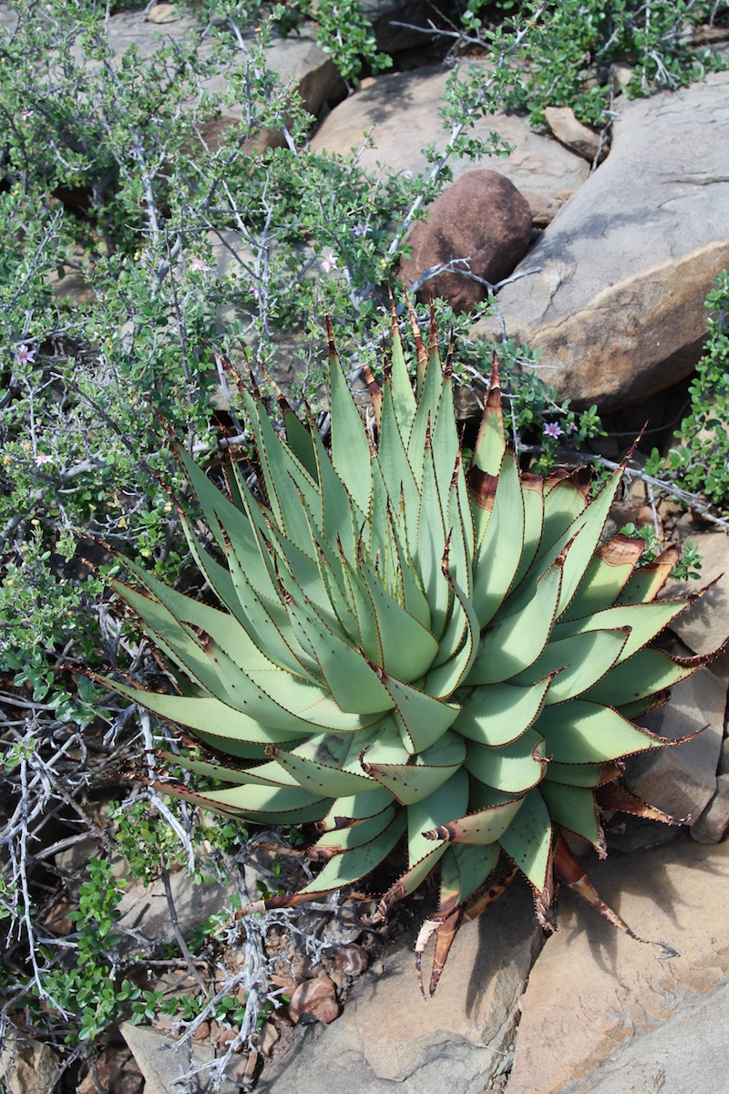 Aloe broomii with Grewia robusta in Karoo National Park